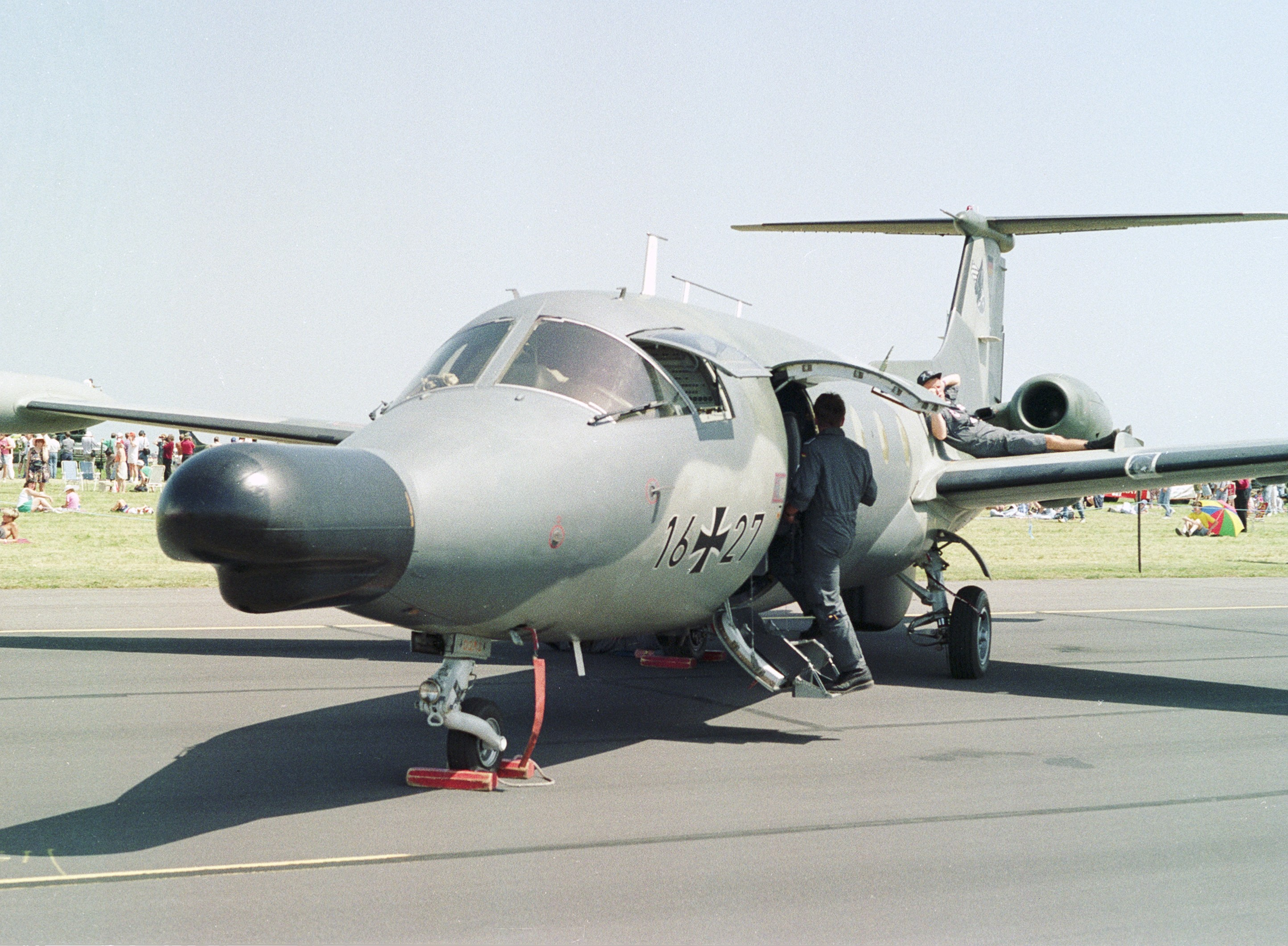 Air Tattoo International, RAF Boscombe Down - UK, June 13 1992.